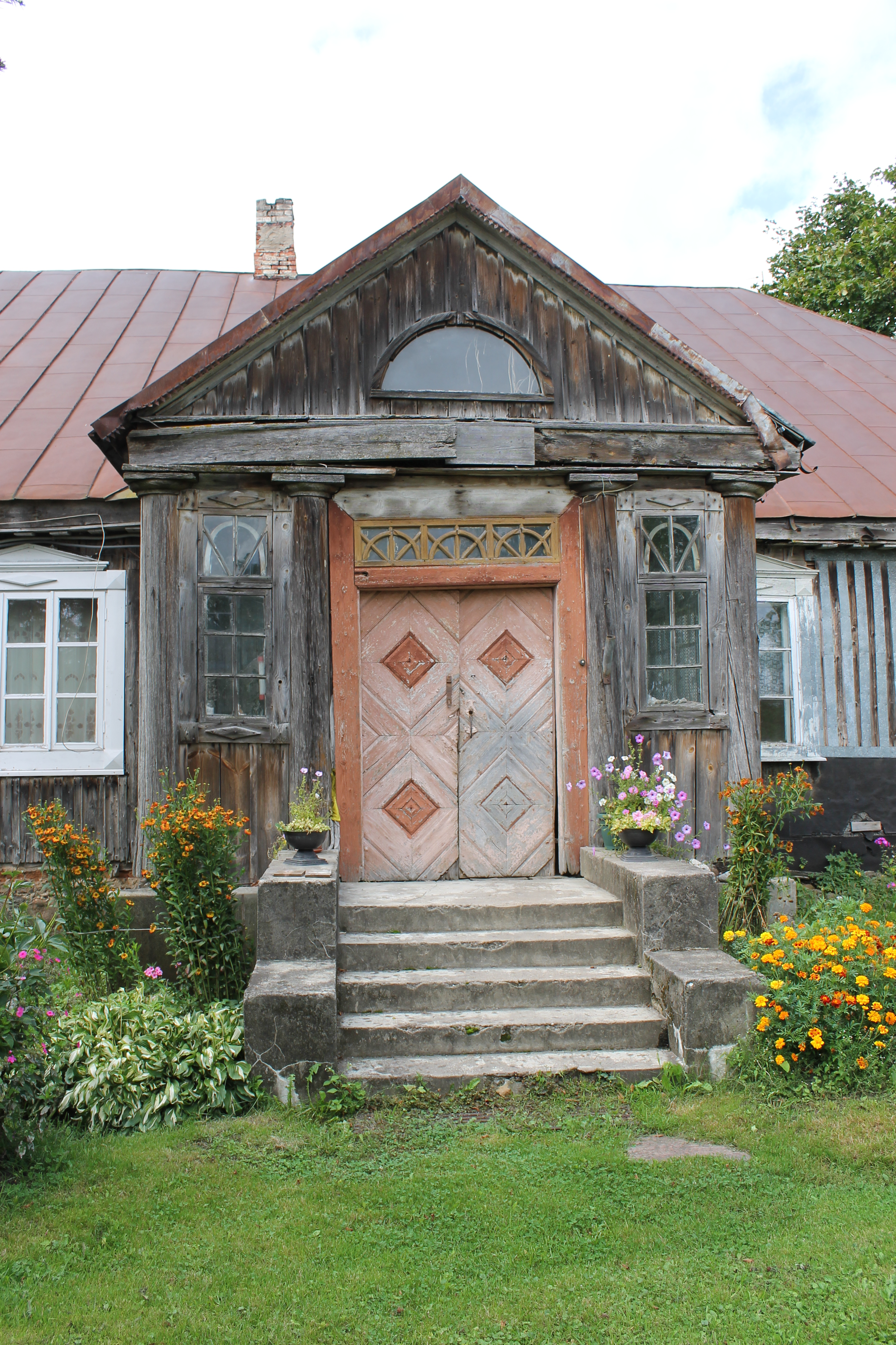 Viduklė, Raseiniai district, LithuaniaLietuvių: Viduklės senoji klebonija, Raseinių rajonas, Lietuva